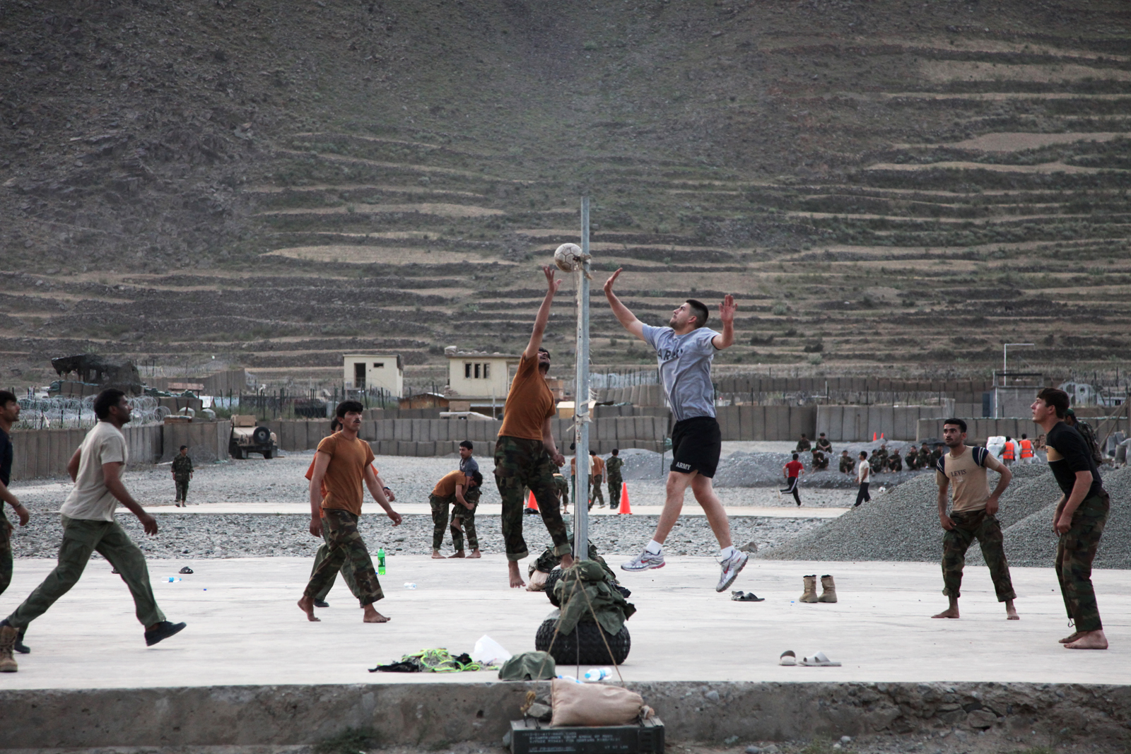 A group of U.S. and Afghanistan forces team up to play a game of volleyball on July 6, 2009, Forward Operating Base Bostick Afghanistan. The Soldiers and civilians FOB Bostick often play sports such as volleyball, soccer and cricket together to build a stronger cohesion. Photo by Chris Allison of the United States of America.